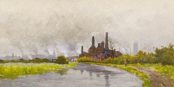 Little Eaton near Derby and Derby canal. What is now Derby Cathedral is visible. The works had gone by 1994.... ref PictureThePast